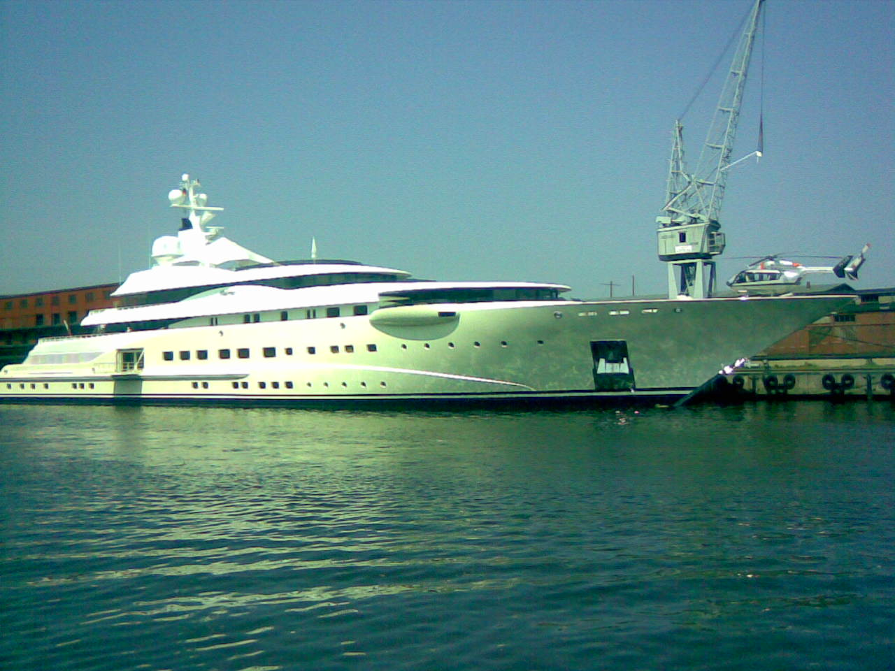 Superyacht "Pelorus" moored in Lübeck, July 2006.